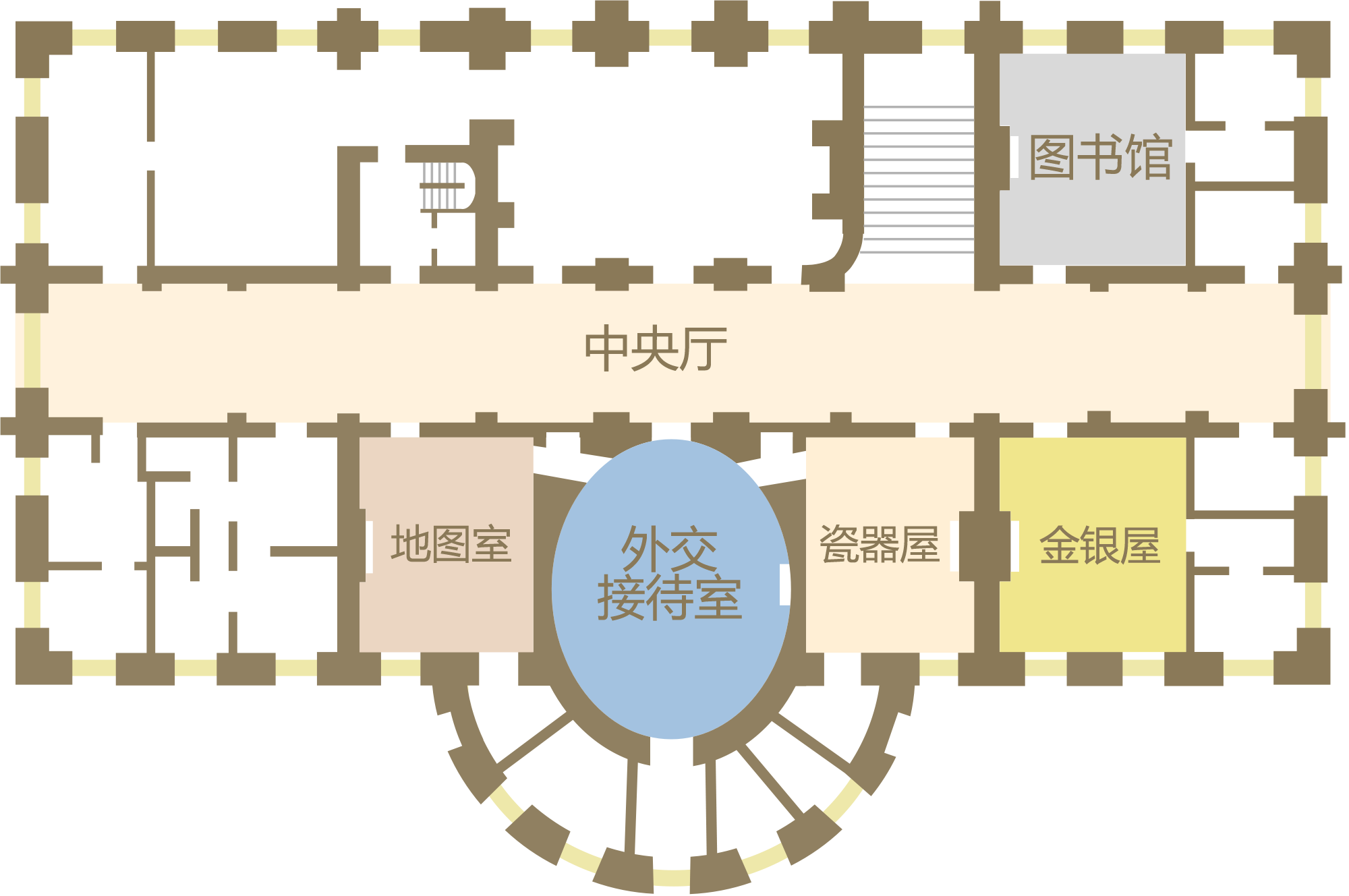 Floor plan of the White House ground floor, which features the Diplomatic Reception Room, White House Library, Map Room, Vermeil Room, and China Room